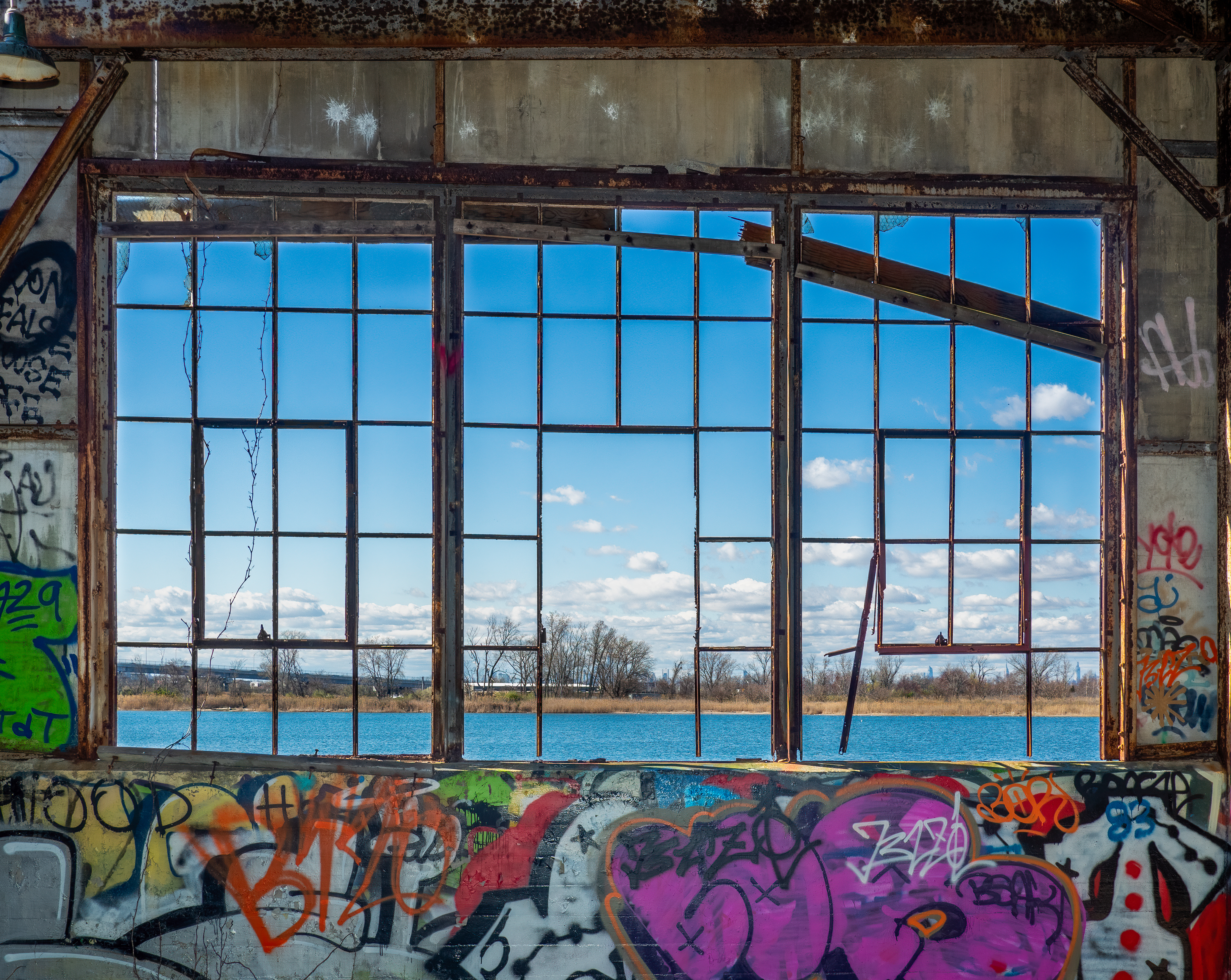 Abandoned, graffiti-covered building in Floyd Bennett Field. This was an inert storage location during the time the airport served as Naval Air Station New York in the 1940s. It was decommissioned in 1971 and transferred to the National Park Service in 1972.